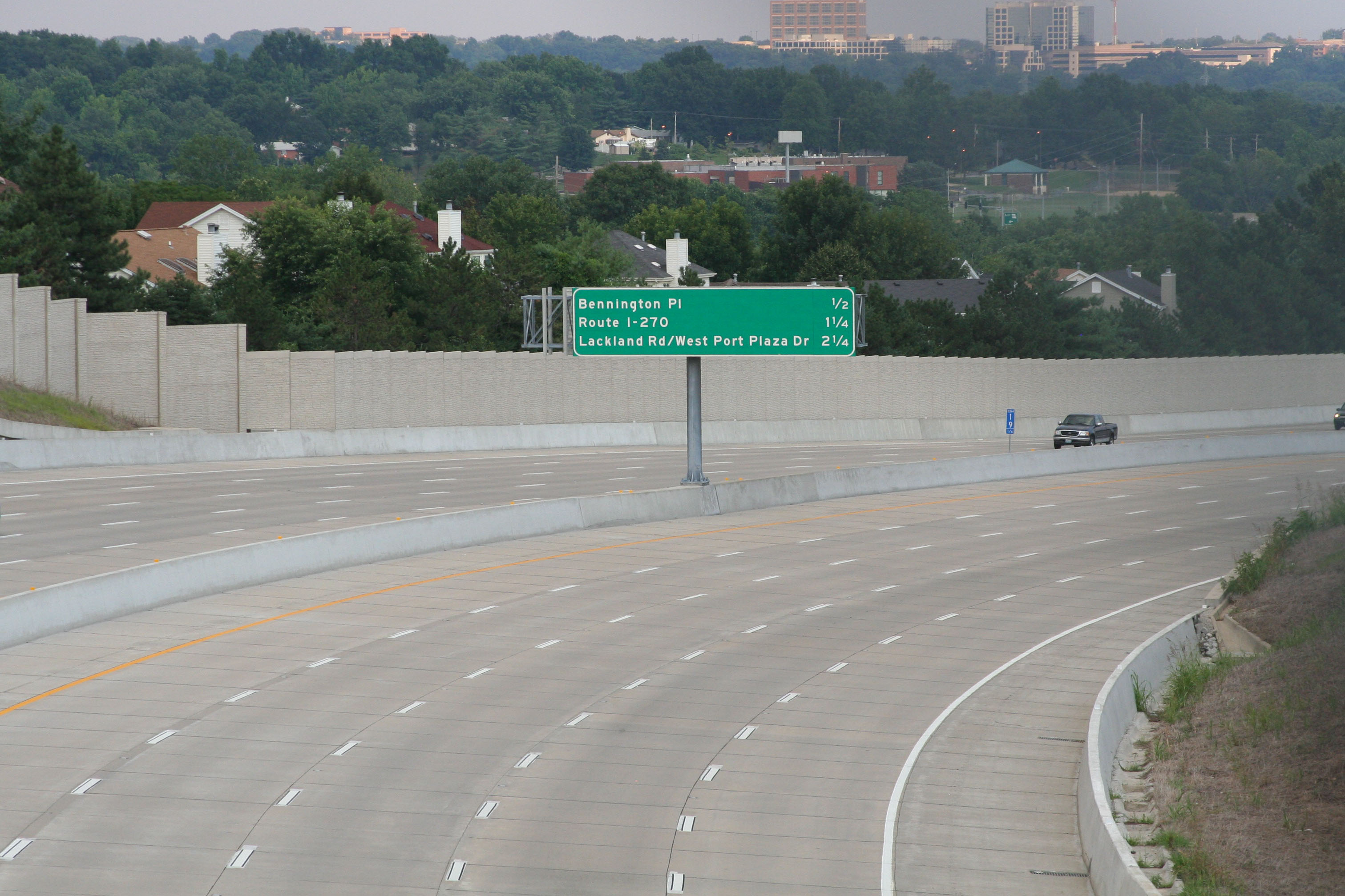 This is a picture of MO-364 looking east from Amiot Drive.